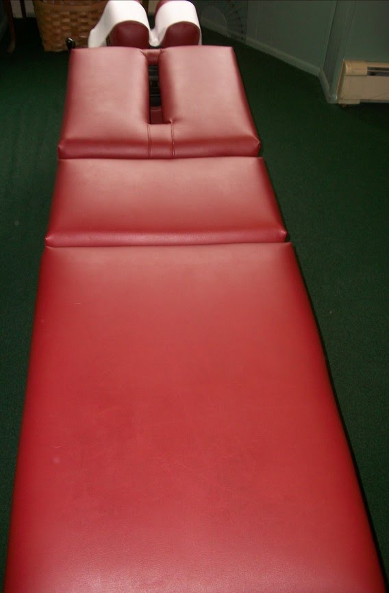 A treatment table at a chiropractic office. There is space for the head at the top.